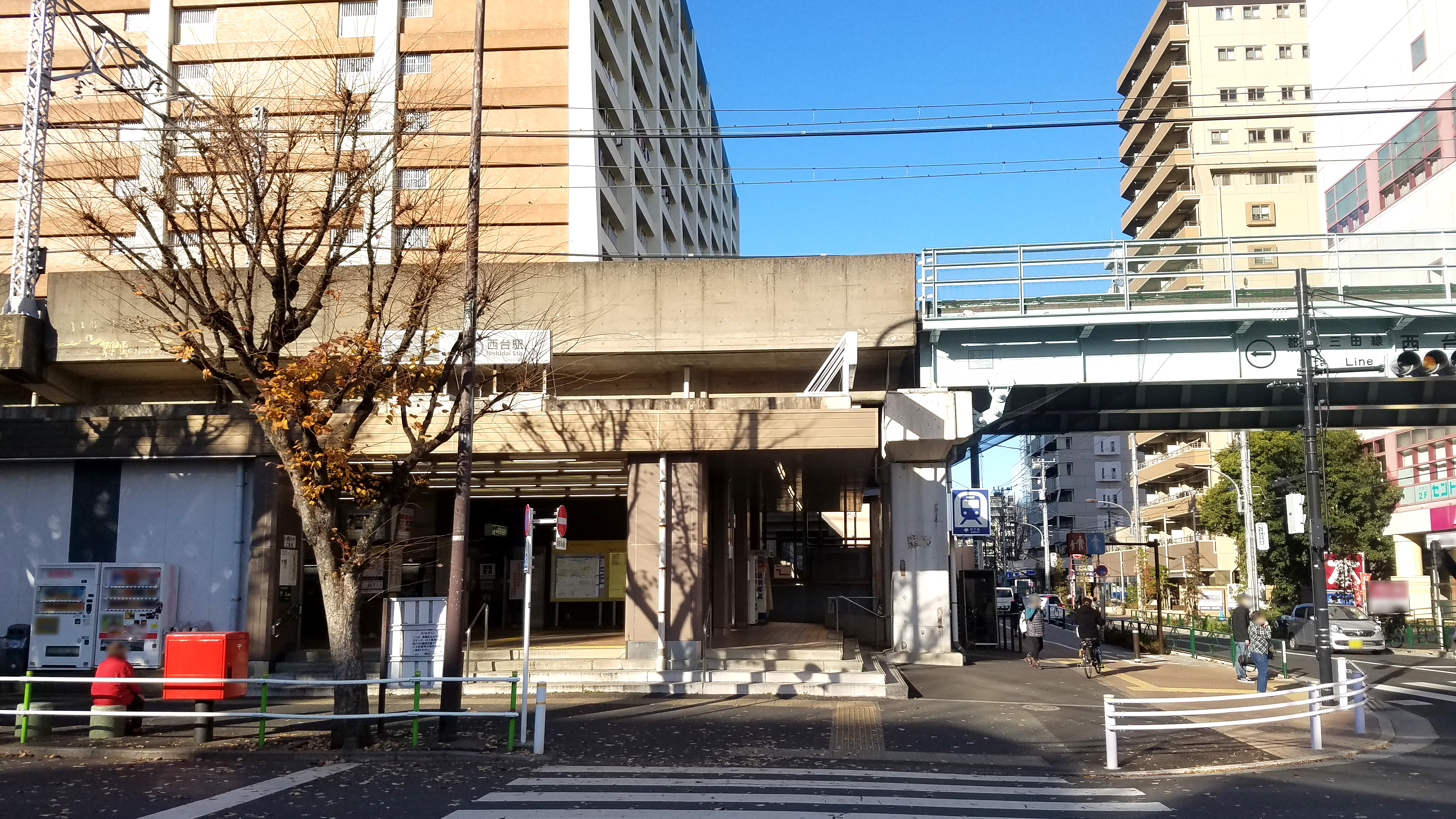 The east-side entrance to Nishidai Station on the Toei Mita Line in Itabashi city, Tokyo, Japan